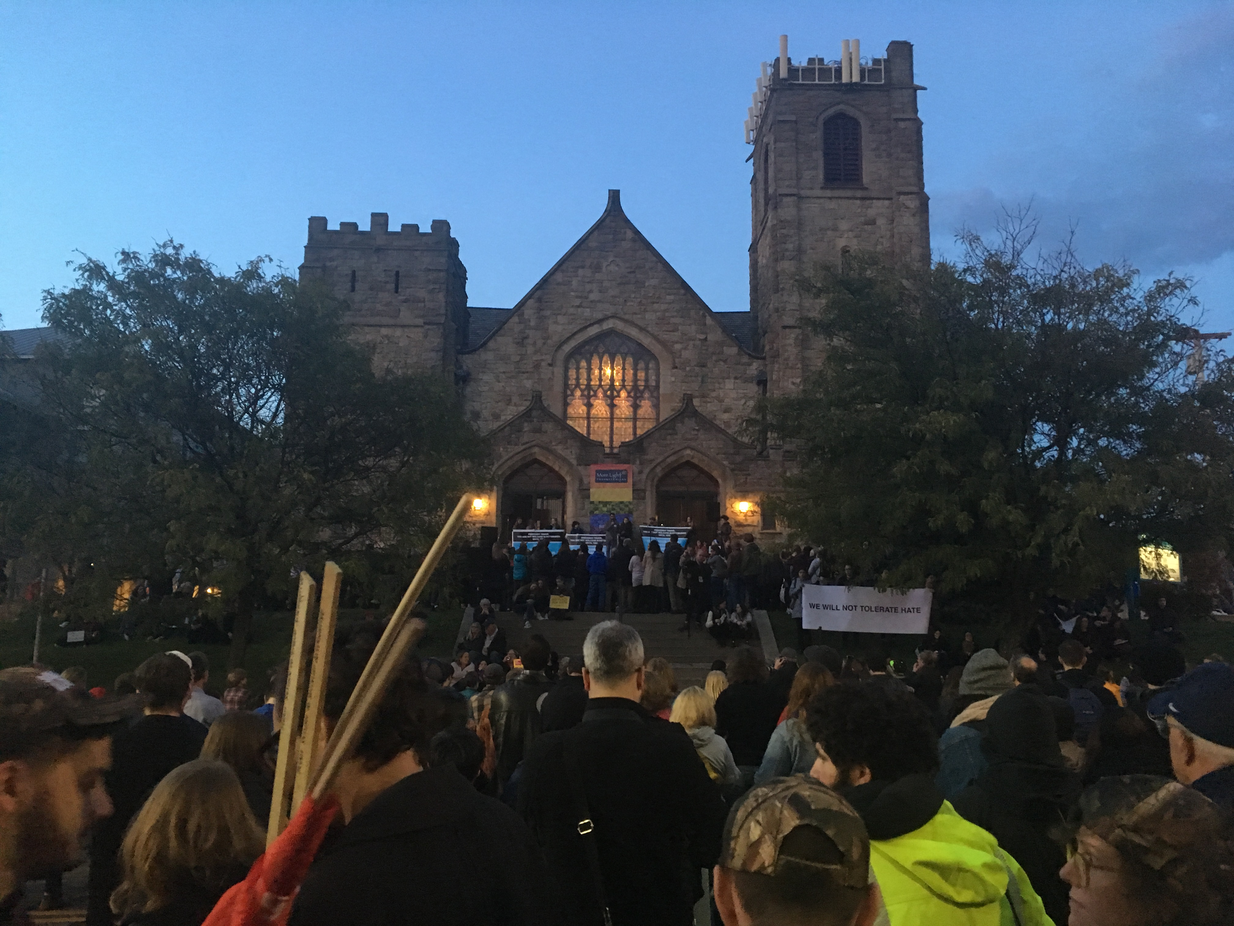 10/30/2018, President Donald Trump visited Pittsburgh for the shooting event. People gathering in front of the Sixth Presbyterian Church at Squirrel Hill for the 2018 Jewish pittsburgh shooting event